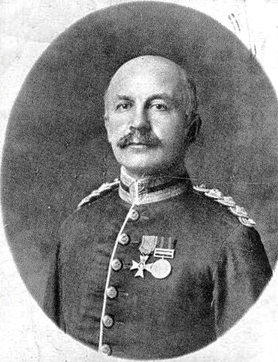 Colonel Albert Edward W. Goldsmid - High-ranking officer in the British Army. Founder of the Jewish Lads' and Girls' Brigade, and founder and president of the Anglo-Jewish charity, the Maccabaeans. An ardent Zionist, he was chief of the Chovevei Zion of Great Britain and Ireland.